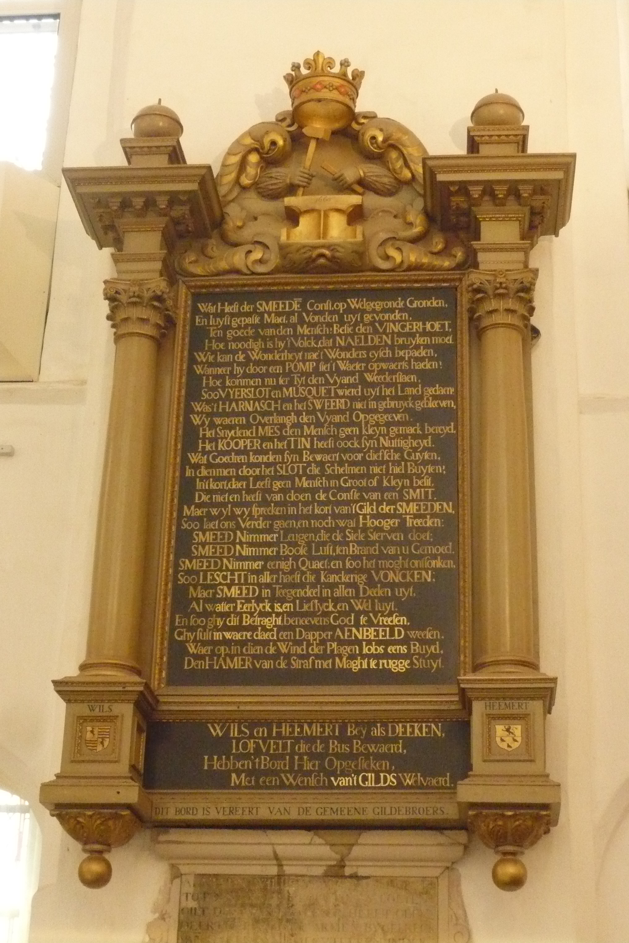 Plaque on wall of Buurkerk in Utrecht (today the entrance of the Speelklokken Museum) in honor of the Smith's guild (Smedegilde or guild of St. Eloy). Plaque dates from 1660.